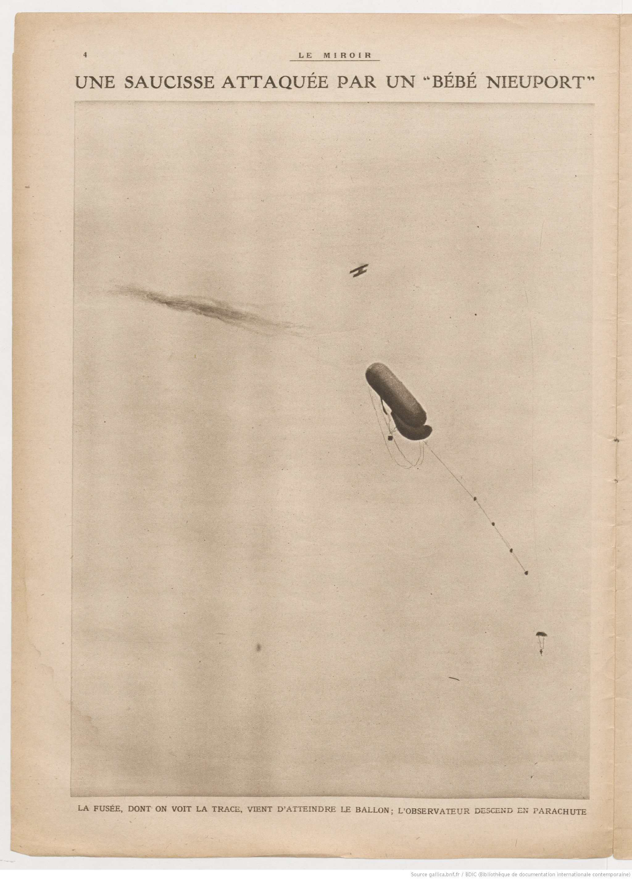 Nieuport 11 shooting down German observation baloon with Le Prieur rockets